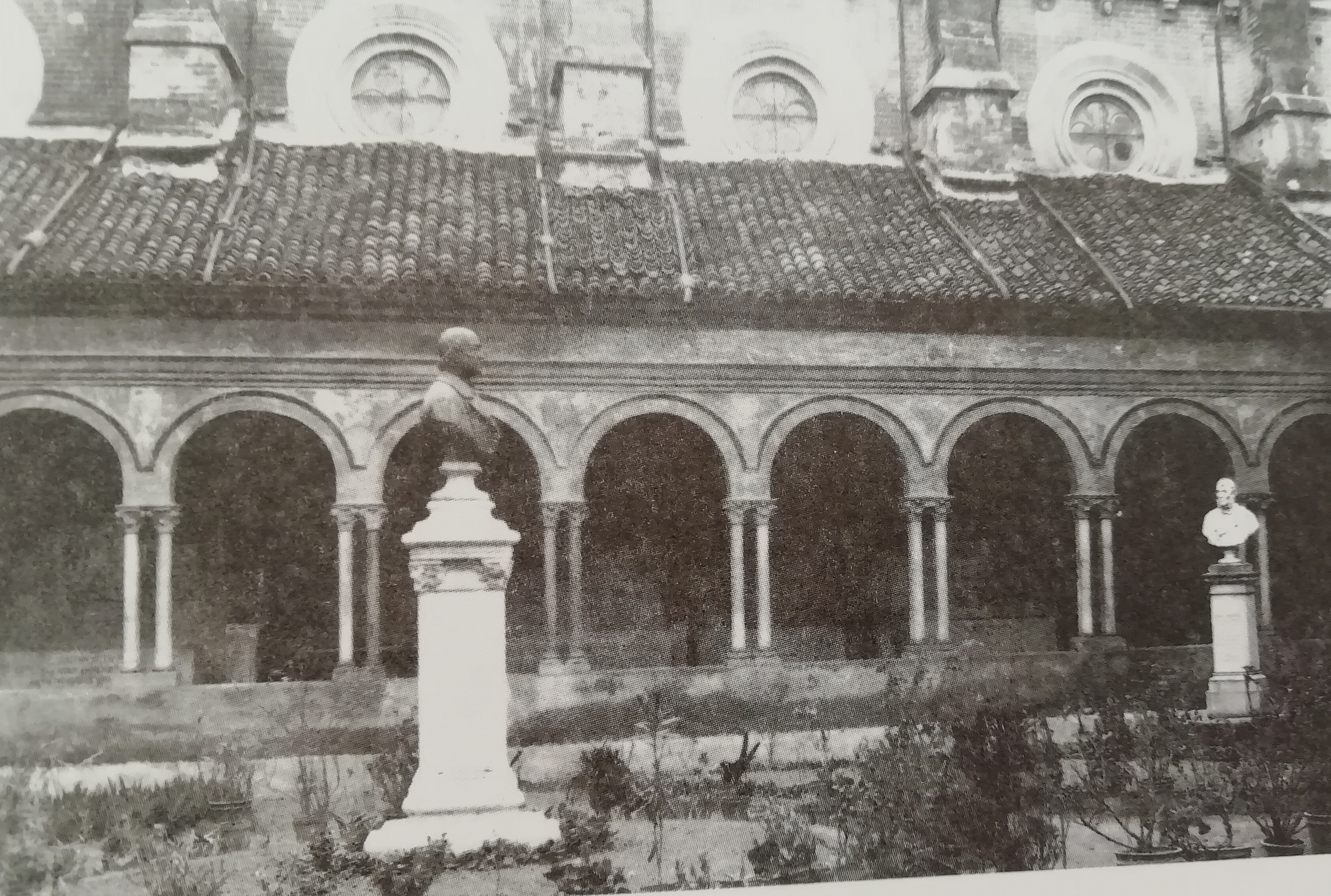 Foto del lapidario bruzza 1900